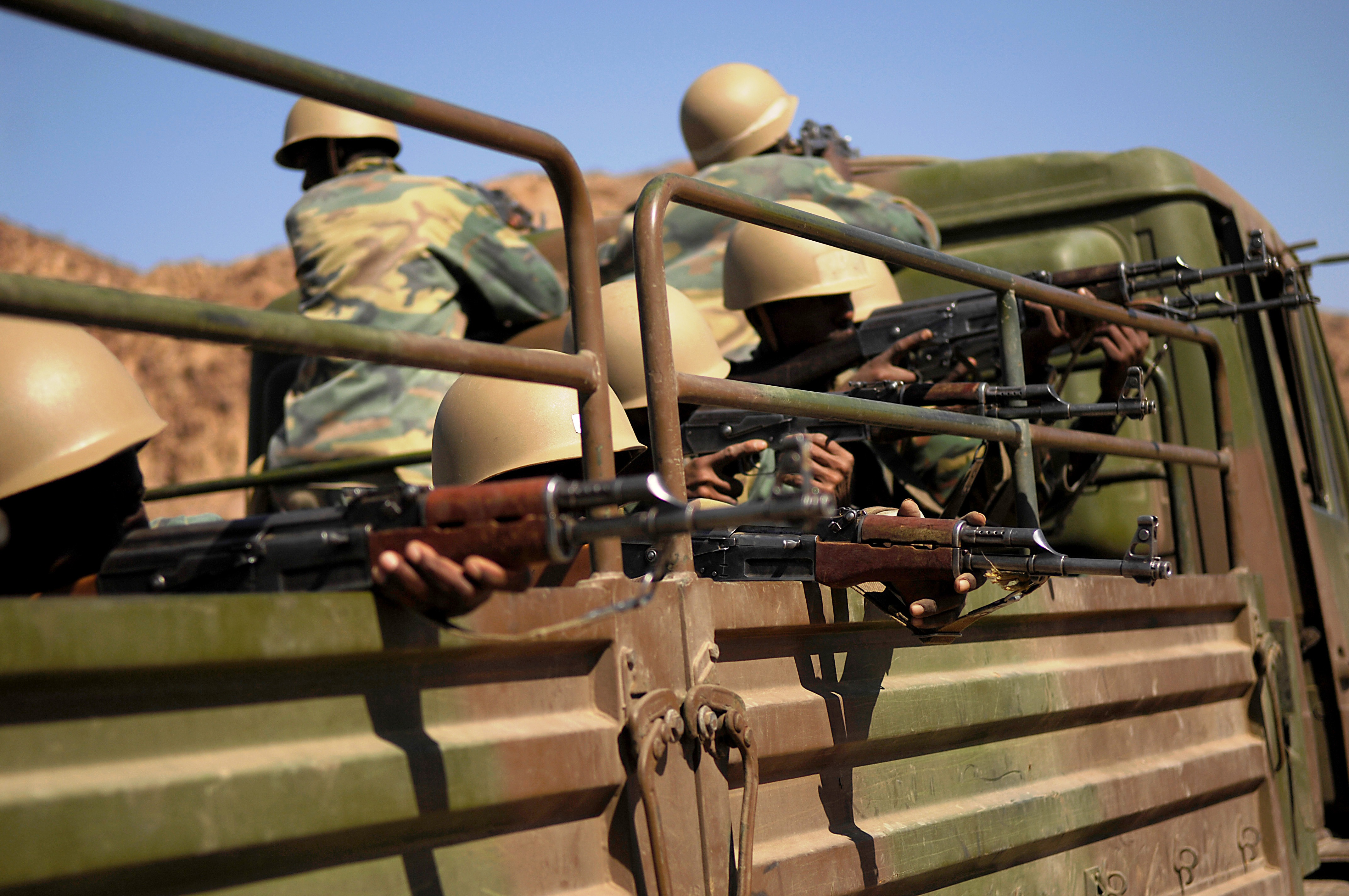 Djiboutian army soldiers scan the terrain for the opposing force during Operation Able Dart 08-01 on Forward Operating Location Ali Sabieh, Djibouti, March 5, 2008. U.S. Army Soldiers from Delta Company, 1st Battalion, 249th Infantry Regiment (Light), Guam Army National Guard are teaching counterterrorism tactics to Djiboutian army soldiers during the 10-week Combined Joint Task Force - Horn of Africa mission.